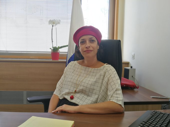 image of Knesset Member Tehila Friedman